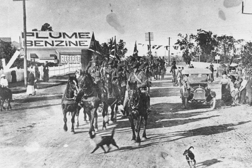 Dungarees passing along Ipswich Road, Moorooka, 1915 The Dungarees were marching from Warwick to Brisbane. (Description supplied with photograph.).